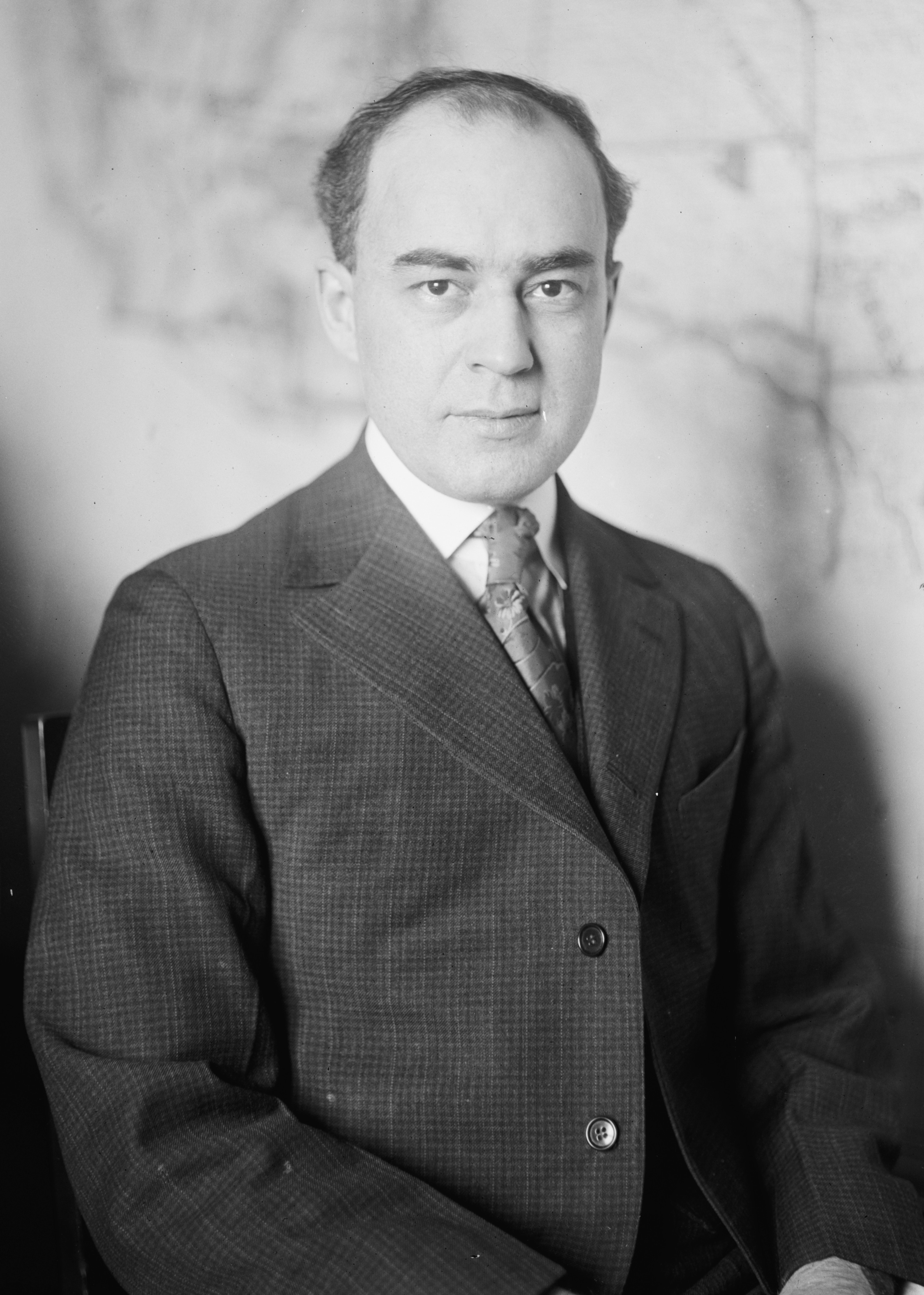 Harry C. Gahn, congressman from Ohio.